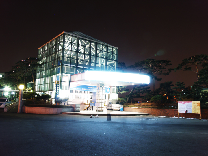 Exit #2, Hanyang University Station, named Ae Ji Moon (means Gate of loving knowledge)